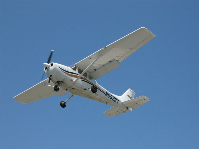 N552GT - A Cessna Skyhawk belonging to the YJFC. Photo by Owen Carroll This image belongs to the YJFC (taken by Owen Carroll) and can be found at and has been used and released by the YJFC webmaster (thats me). For confirmation, you may email: webmaster [at] yjfc [dot] org.